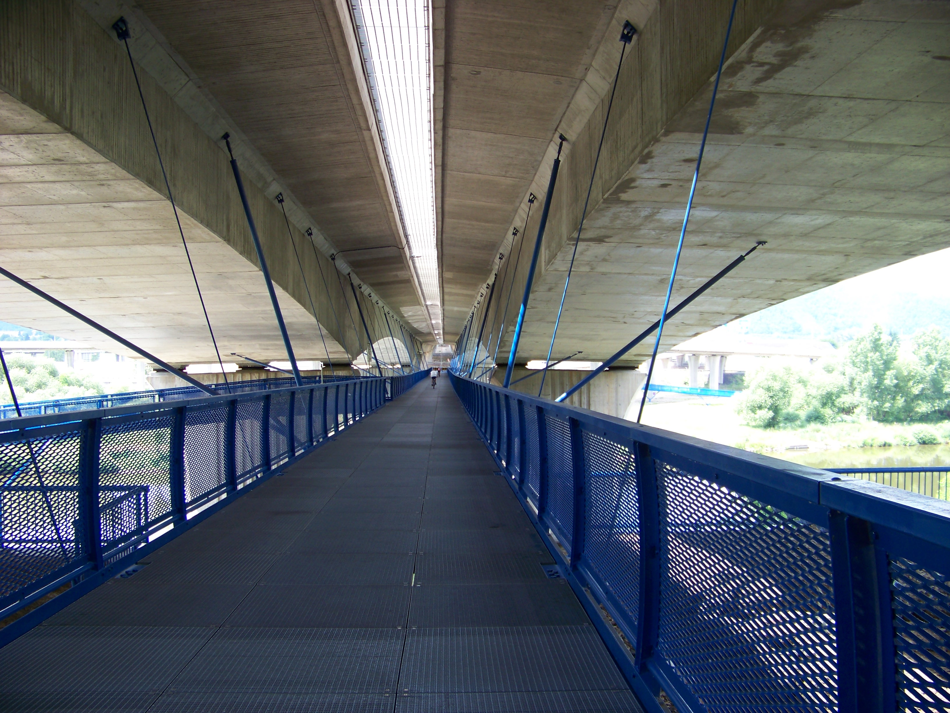 Prague-Komořany, Czech Republic. Radotínský most.